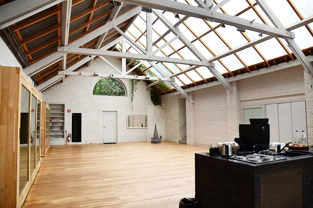 The Namahn Open Space with its 90m2 wooden dance floor. It gives access to the back office, the small garden and the Design Studio, where most co-creative workshops take place.